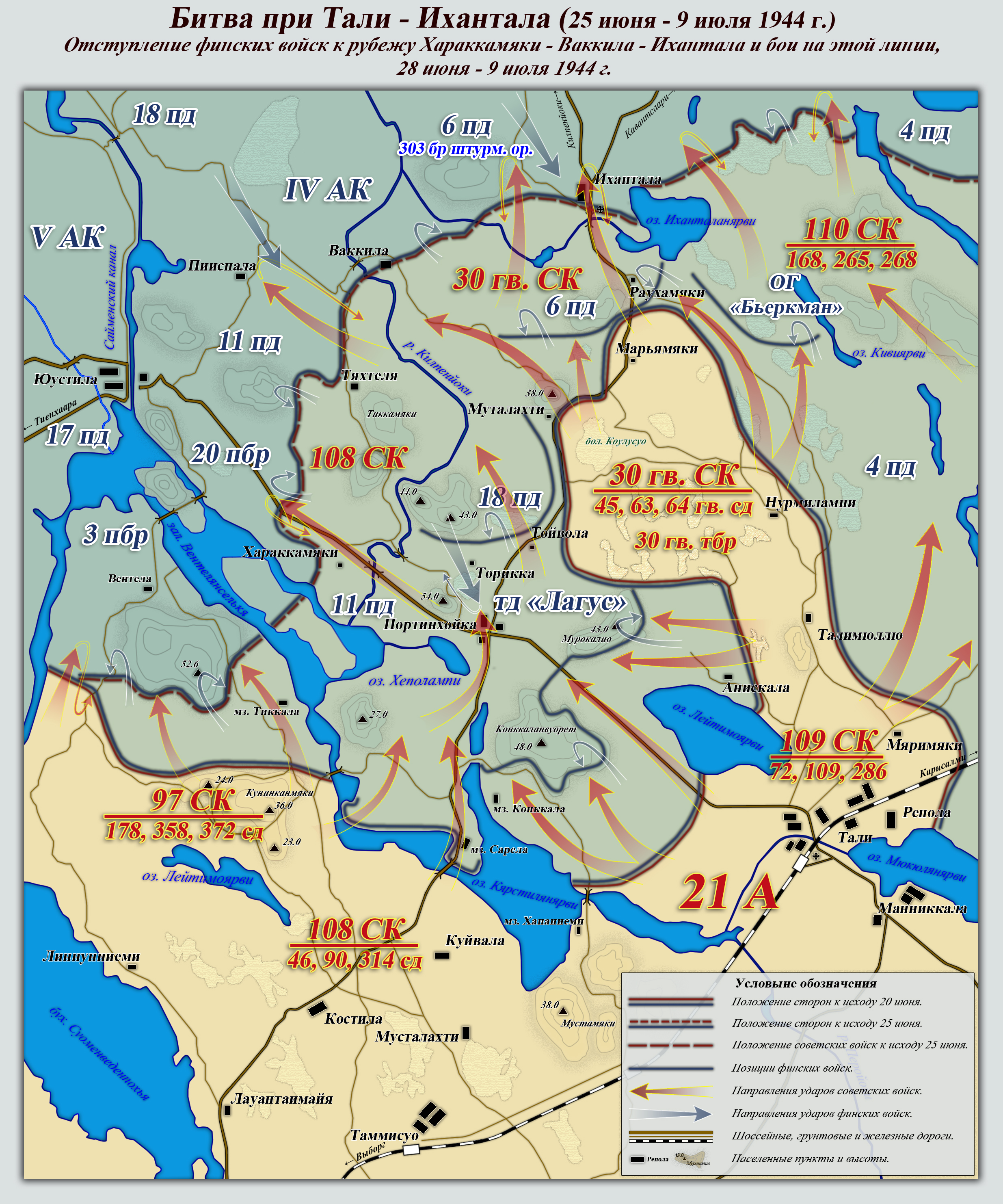 Battle of Tali-Ihantala. Part 3.